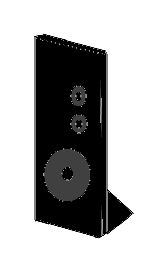 Dipole speaker